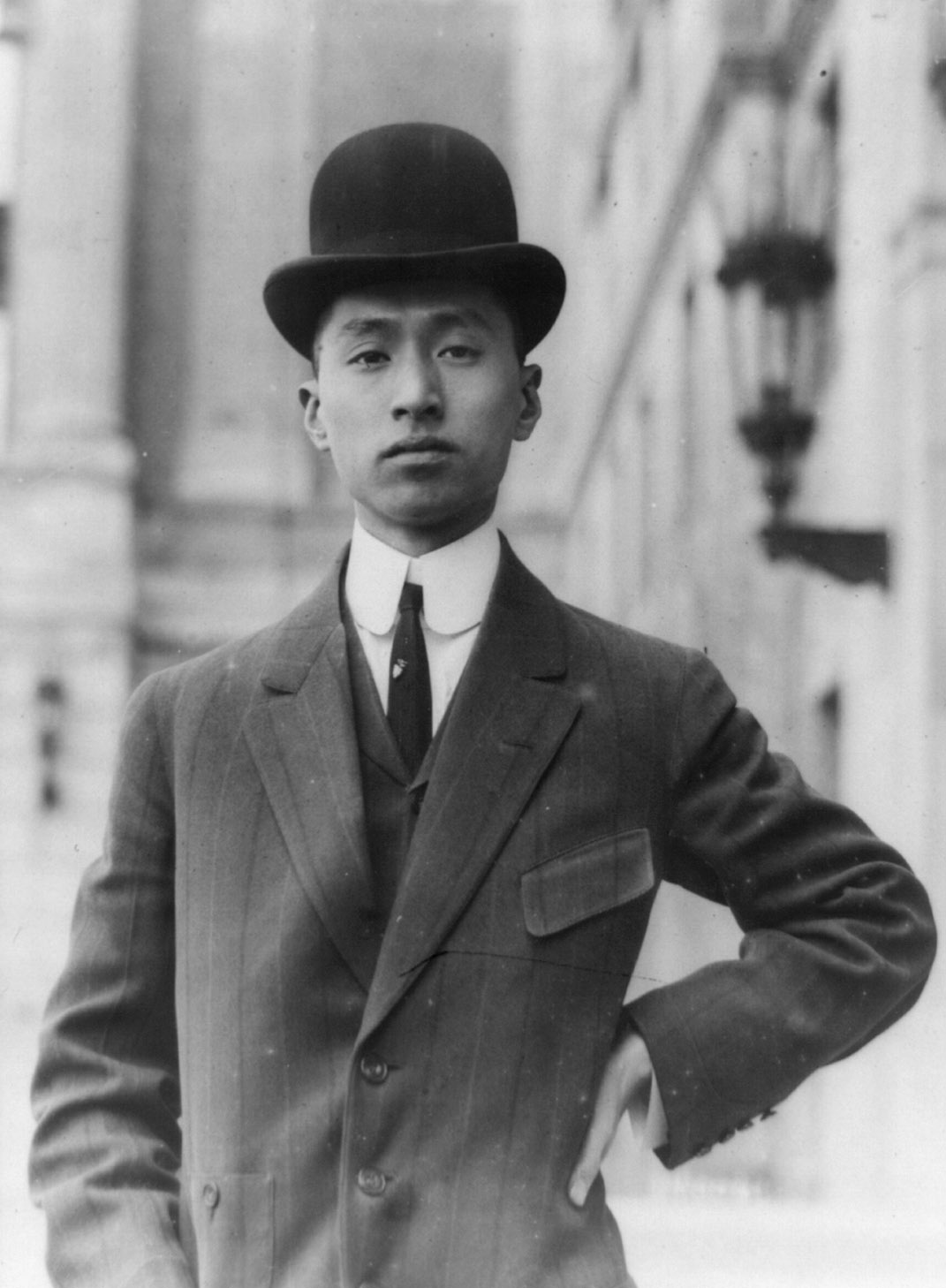 Wellington_Koo, Chinese diplomat and a representative to the Paris Peace Conference of 1919.